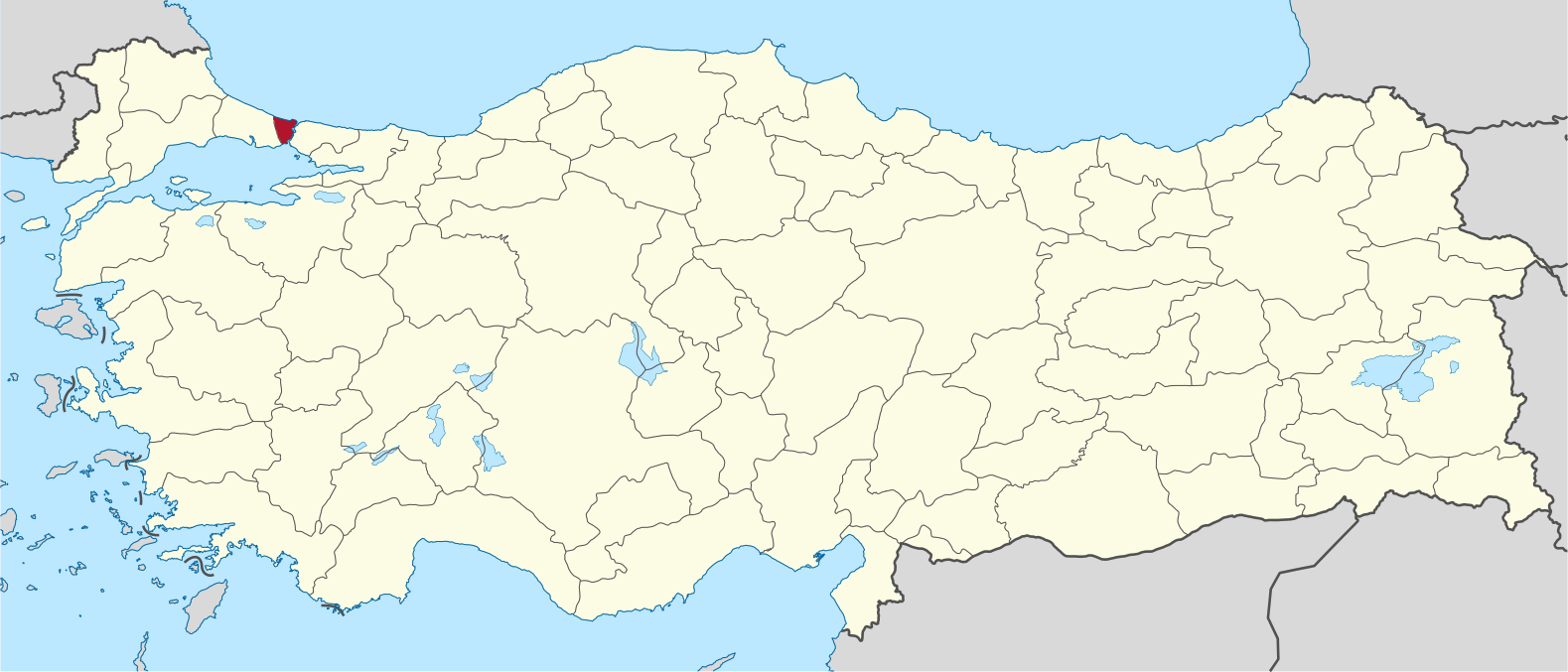 The second electoral district of İstanbul